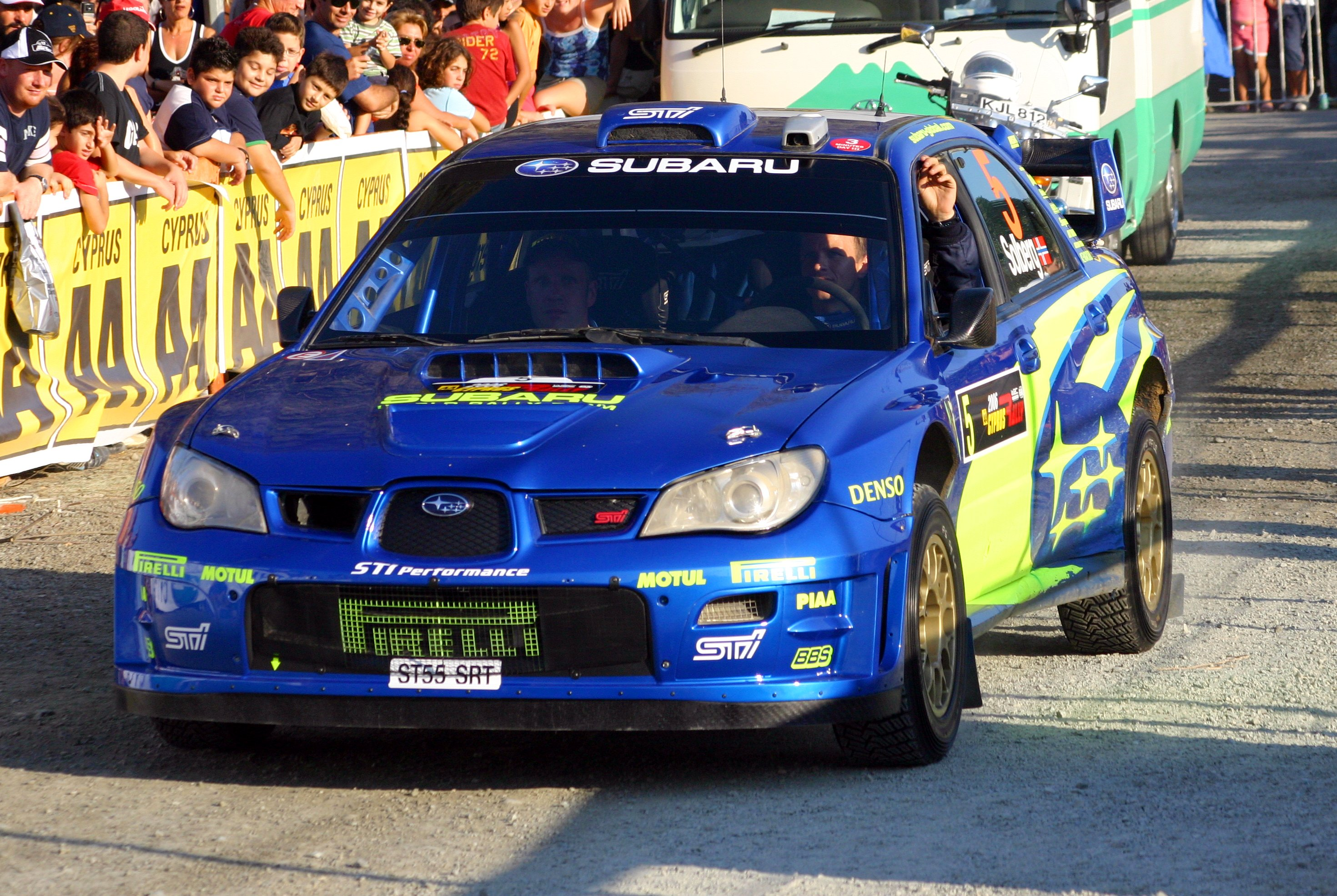 Petter Solberg at the closing ceremony of the 2006 Cyprus Rally.